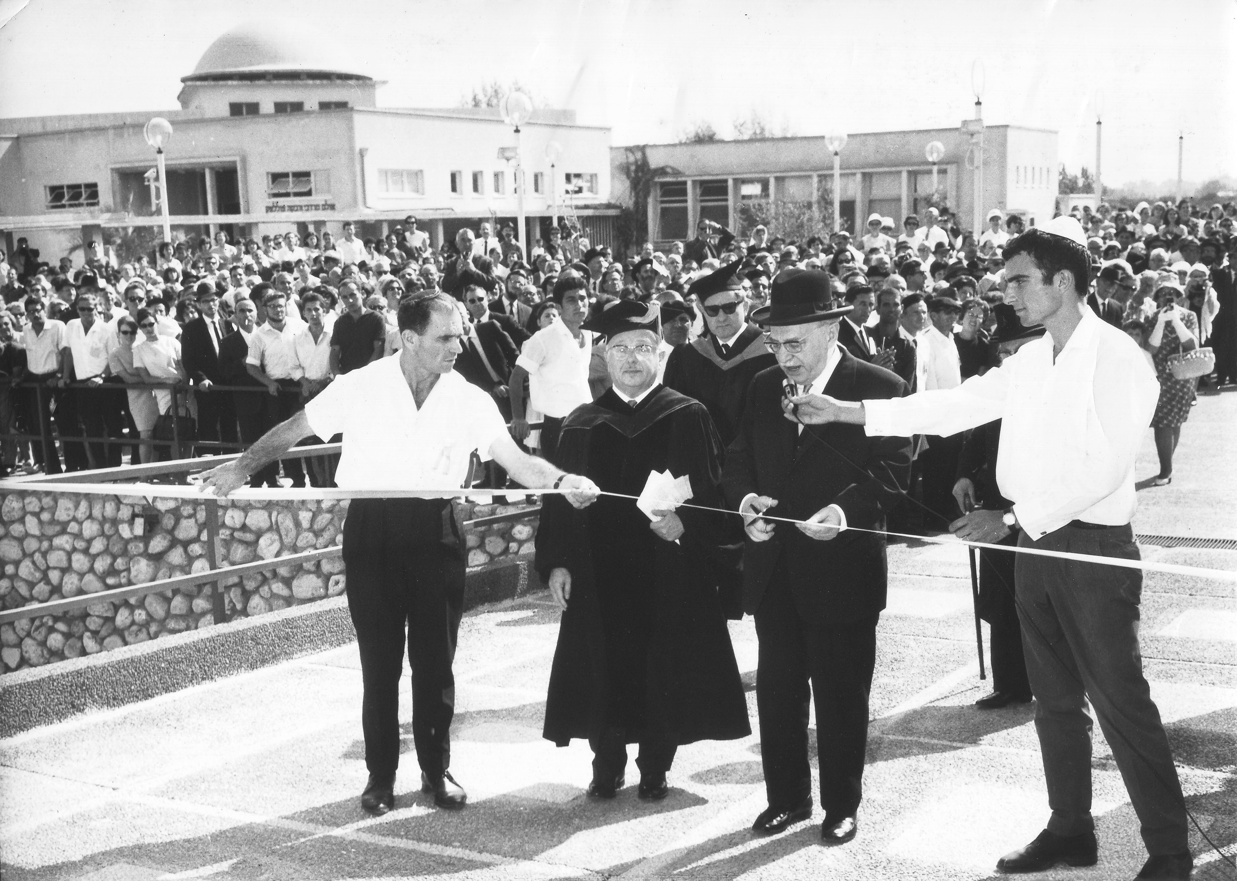 Library-opening-ceremony-bw